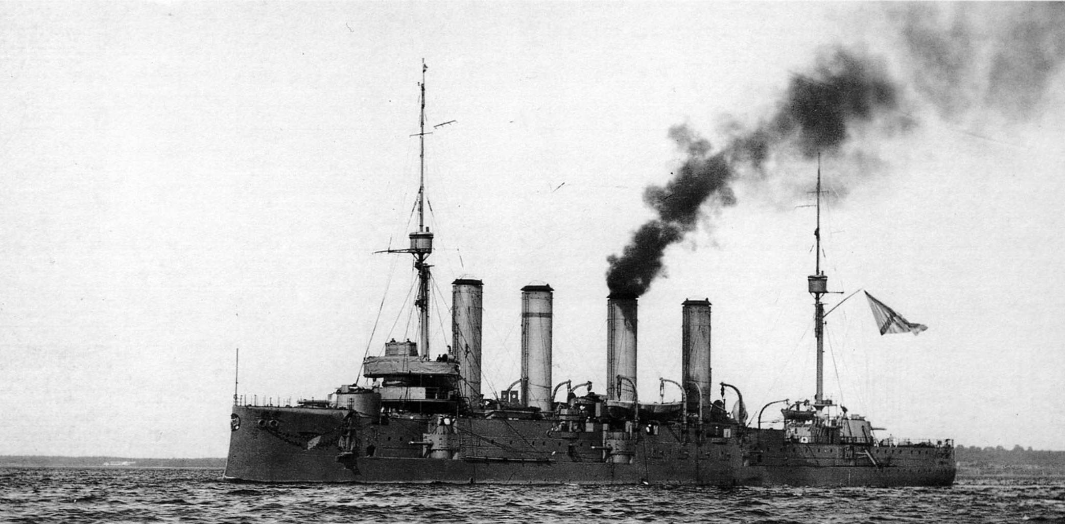 Imperial Russian Armoured cruiser Admiral Makarov, 1916.